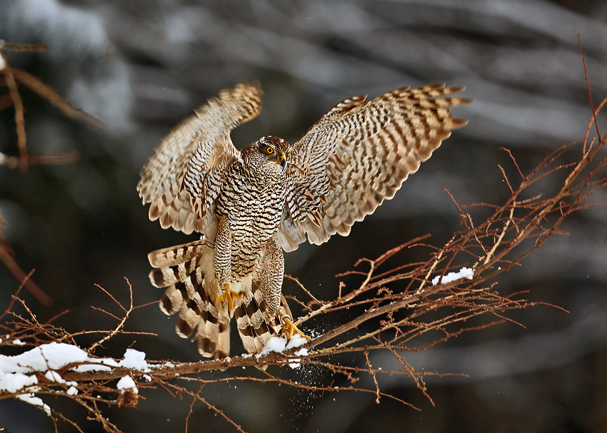 Accipiter nisus, Herálec, Czech Republic